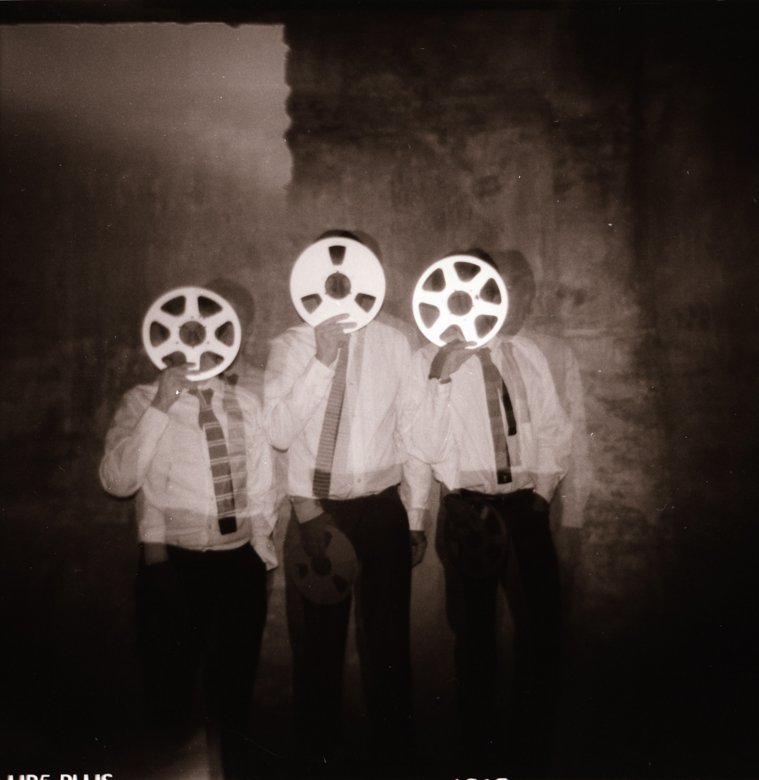 Double exposure photograph of Langham Research Centre with empty tape spools